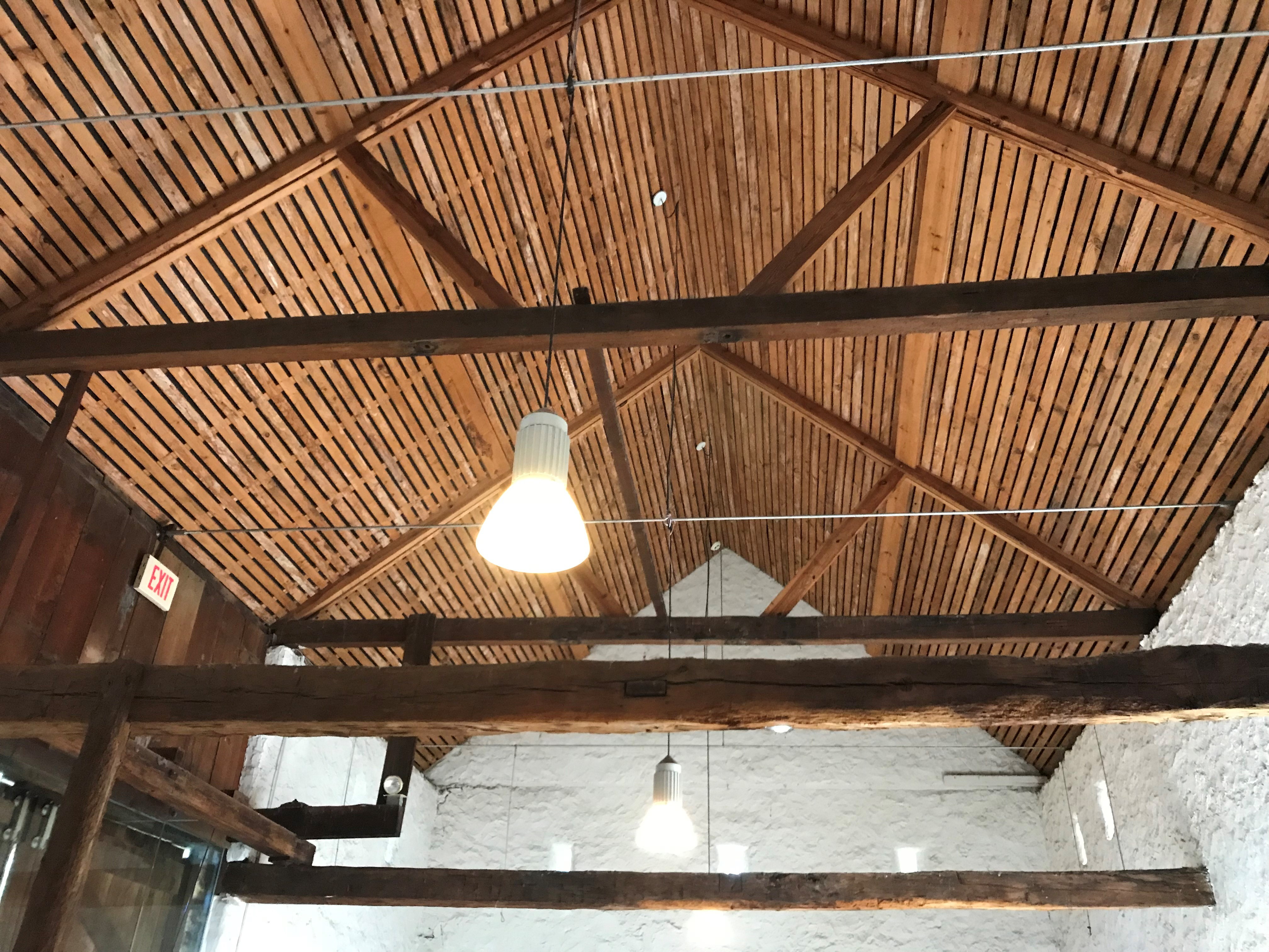 Photograph of the roof truss within the barn at Bartram's Garden.